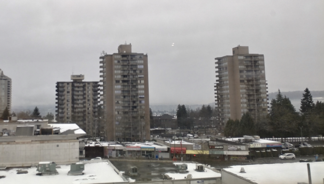 apartment